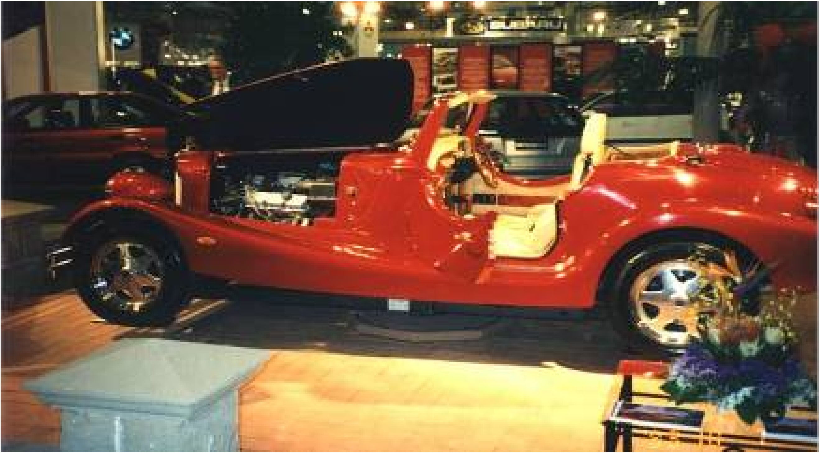 I am a representative of Bufori Motor Car Company and have permission to upload this photo